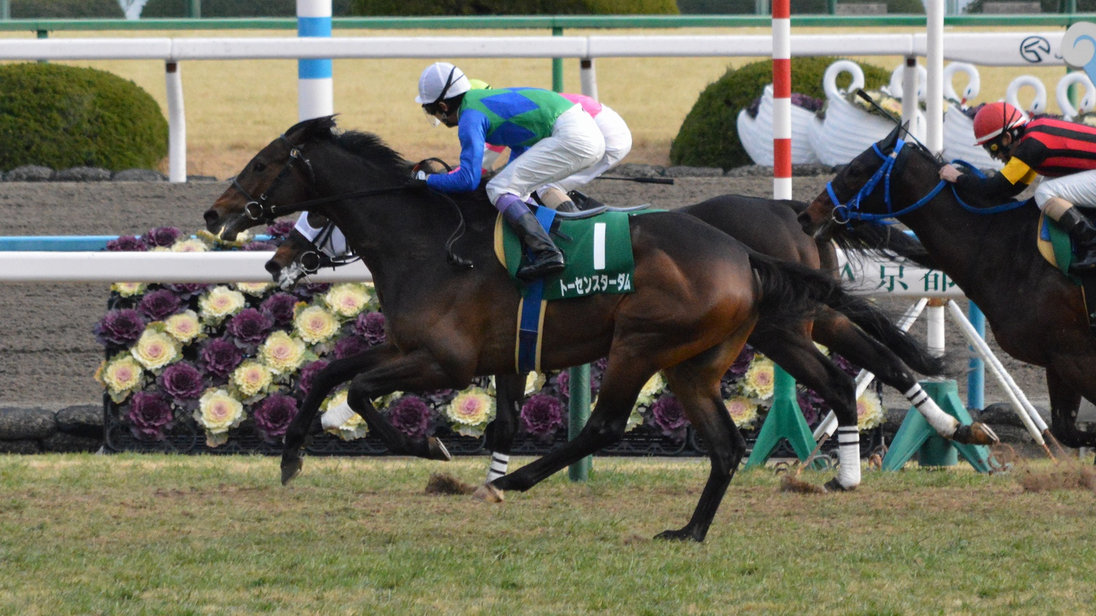 Japanese race horse Tosen Stardom at Kyoto racecourse.